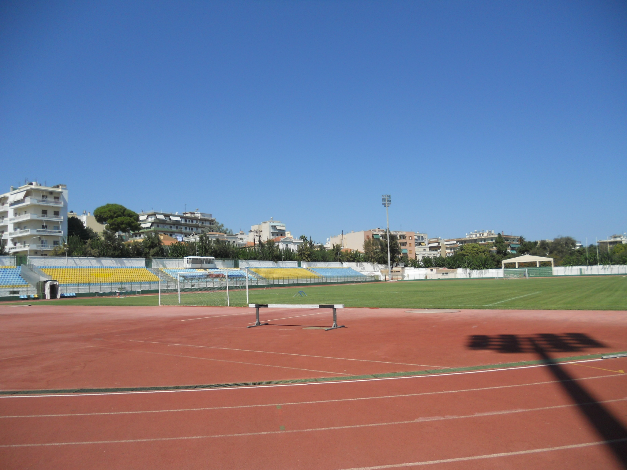 The Mytilene Municipal Stadium, commonly referred to as Tarlas, as of September 2012.